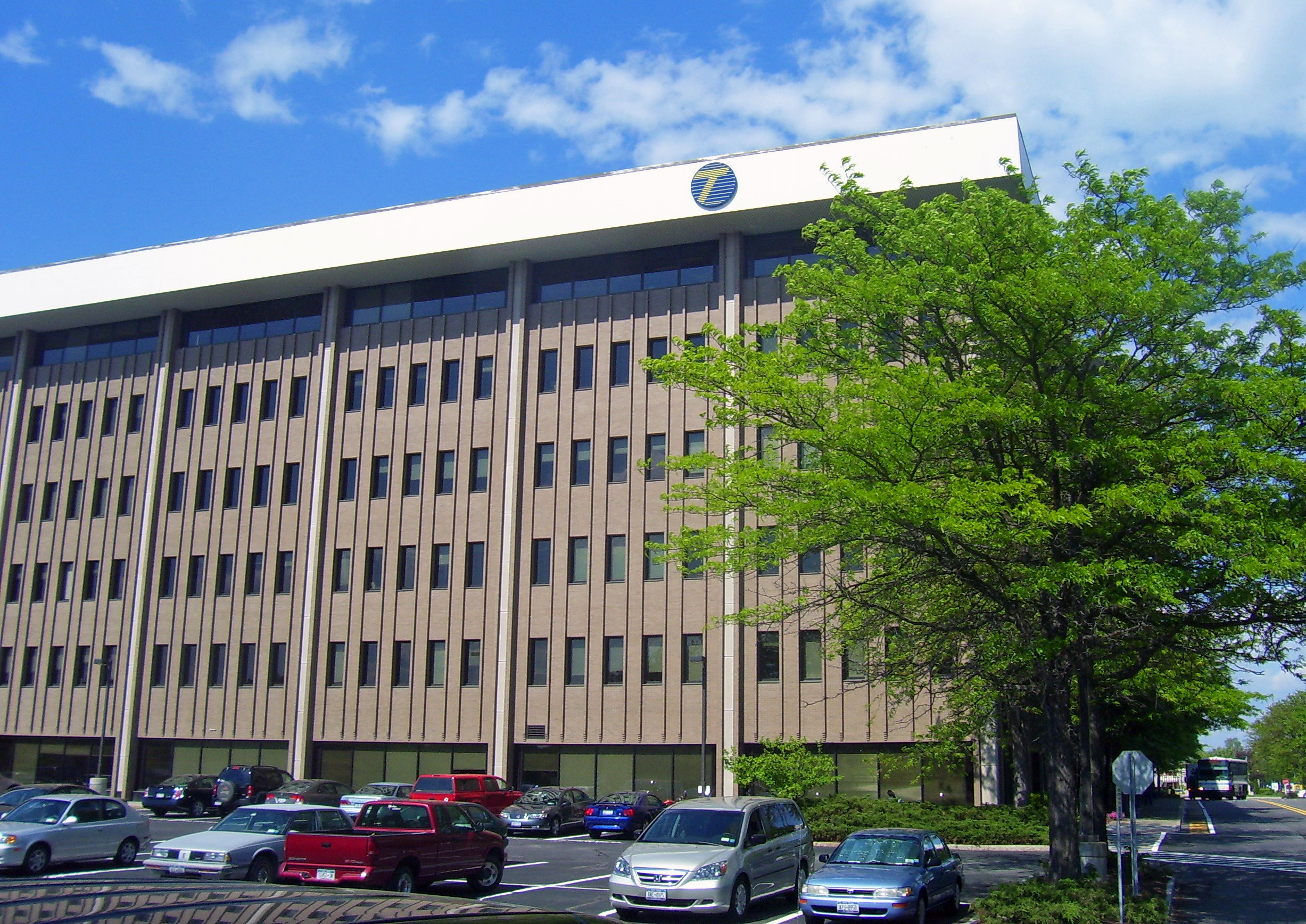 Headquarters of the New York State Department of Transportation, and former home of the New York State Department of Environmental Conservation on Wolf Road in Colonie, NY, USA